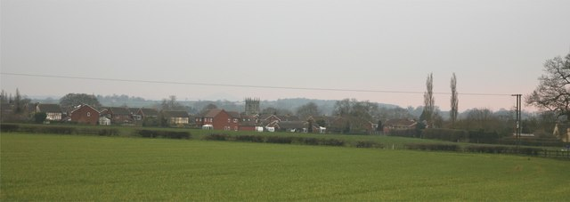 Farmland looking Towards St. Lawrence Church The finger posts were not that obvious from this point on but we walked around the field and found the stile, to much relief as we did not want to turn back.